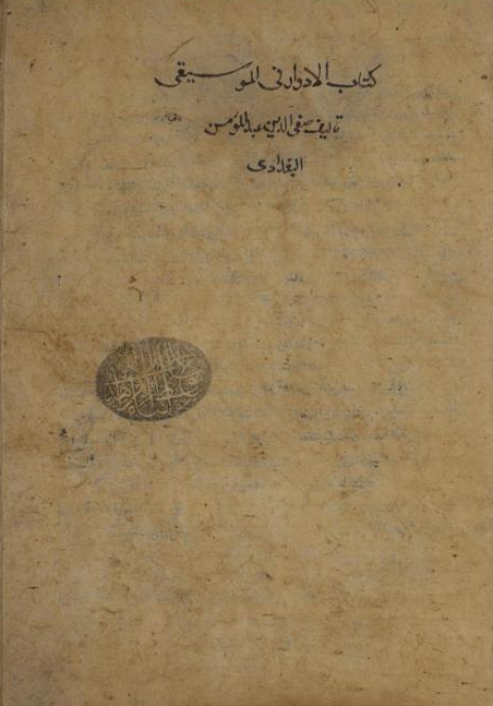 Scanned copy of the old treatise (the U. Penn. copy numbered LJS 235 and dated 1692 A.D.) Further info on U. Penn. library website: Complete scanned copy